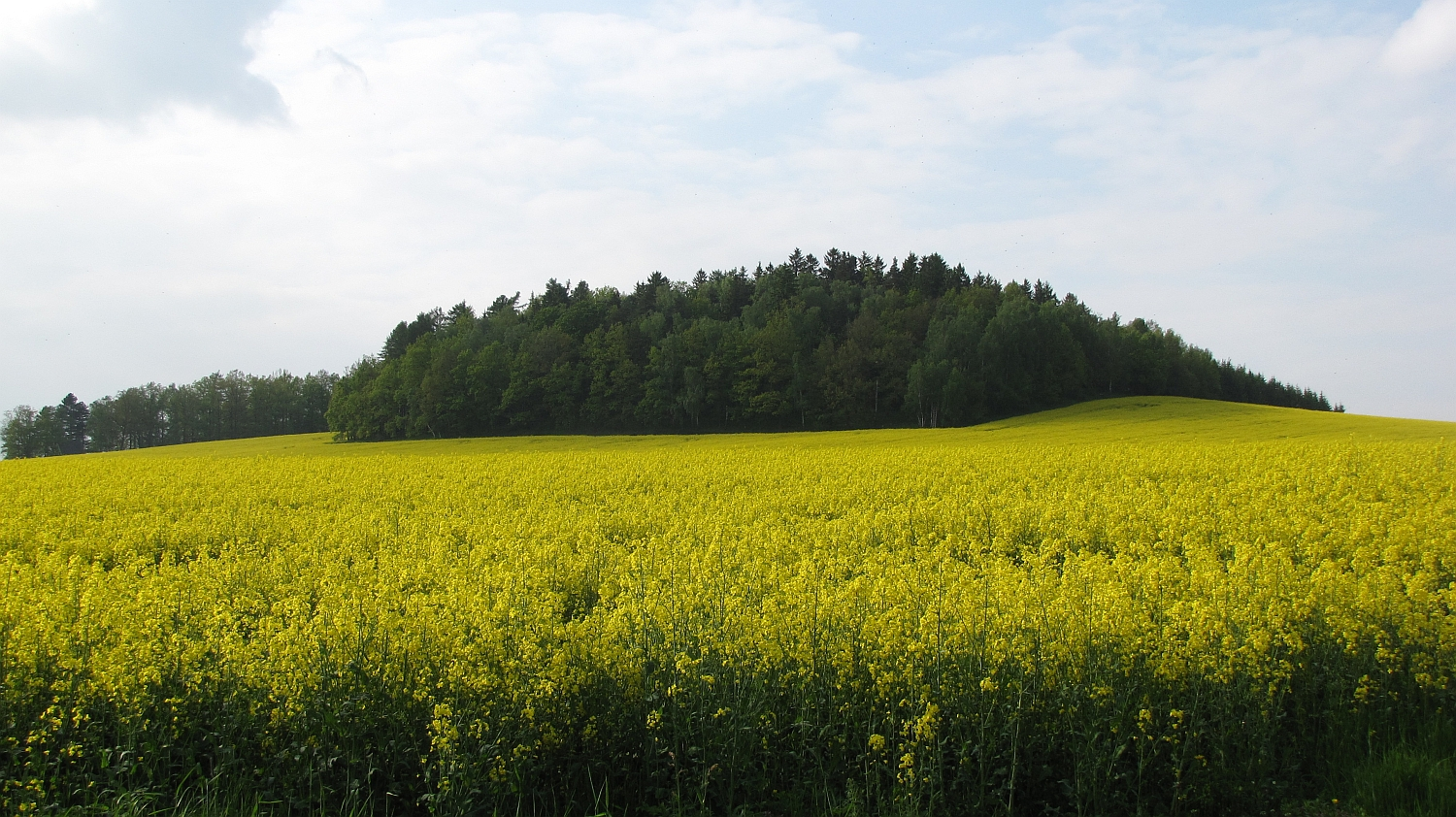 Hänscheberg near Neusalza-Spremberg, Saxony